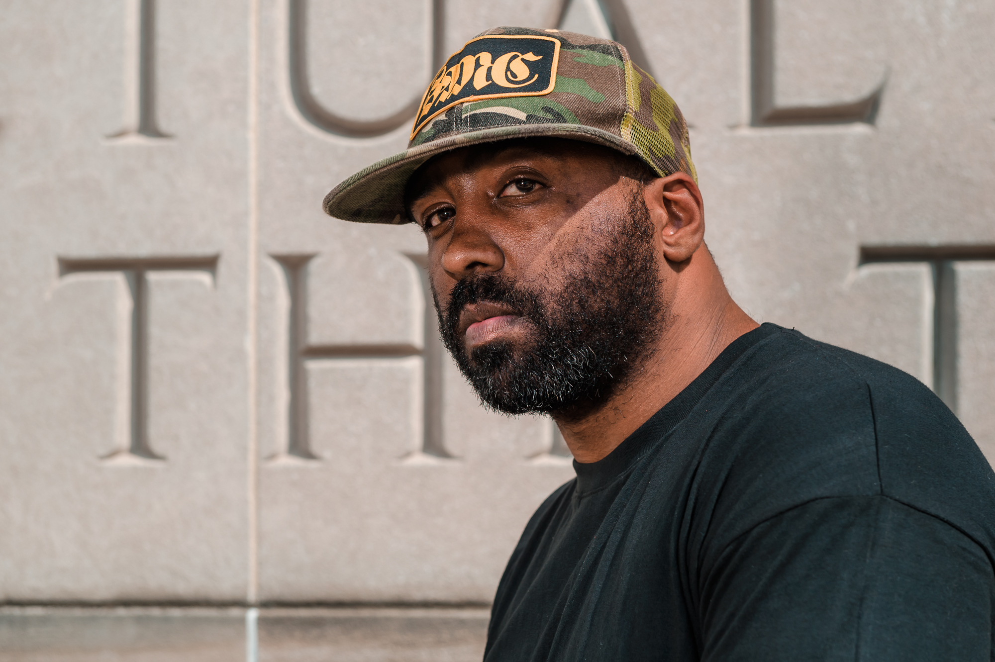 NYC-based alternative underground hip hop rap artist